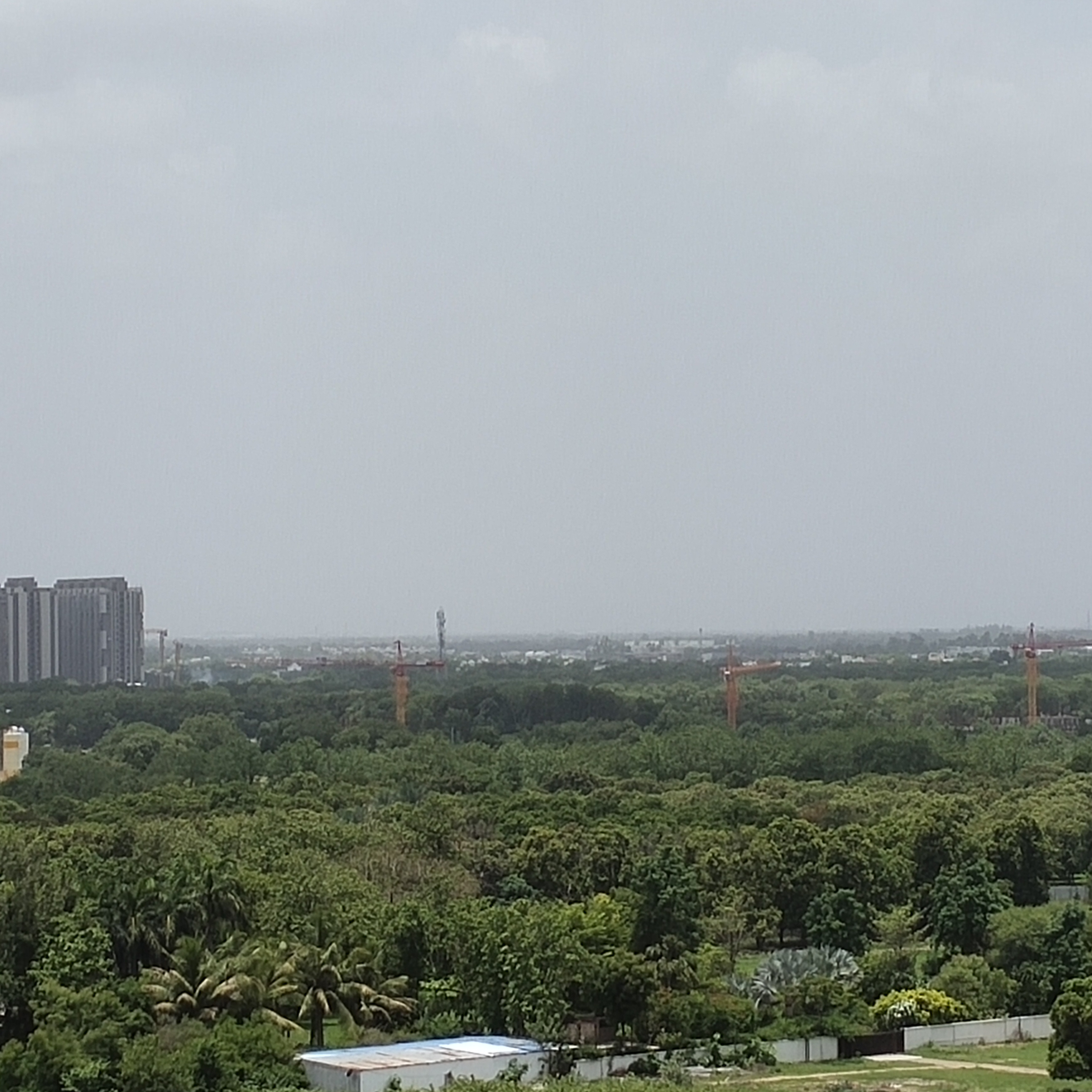 Bopal Skyline - Looking north from South Bopal